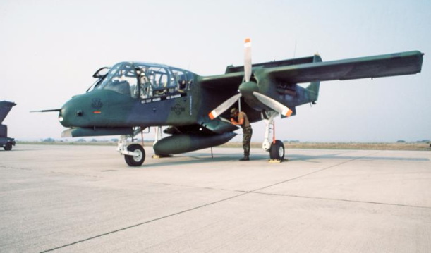 A 27th Tactical Air Support Squadron (27th TASS) OV-10A Bronco aircraft parked on the flight line. The 27th TASS is deployed for training